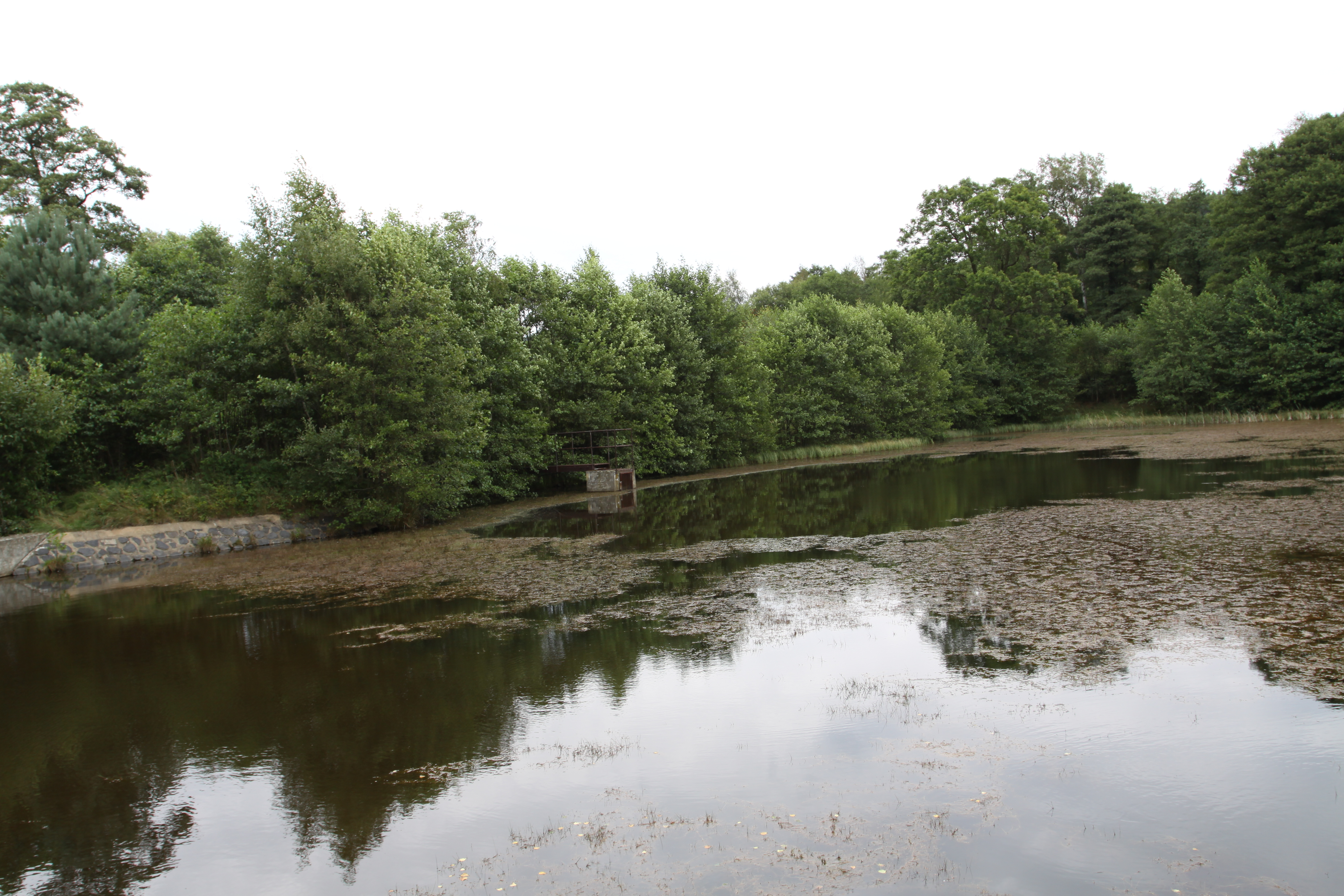 Rájec village, part of Tisá village in Ústí nad Labem District, Czech Republic